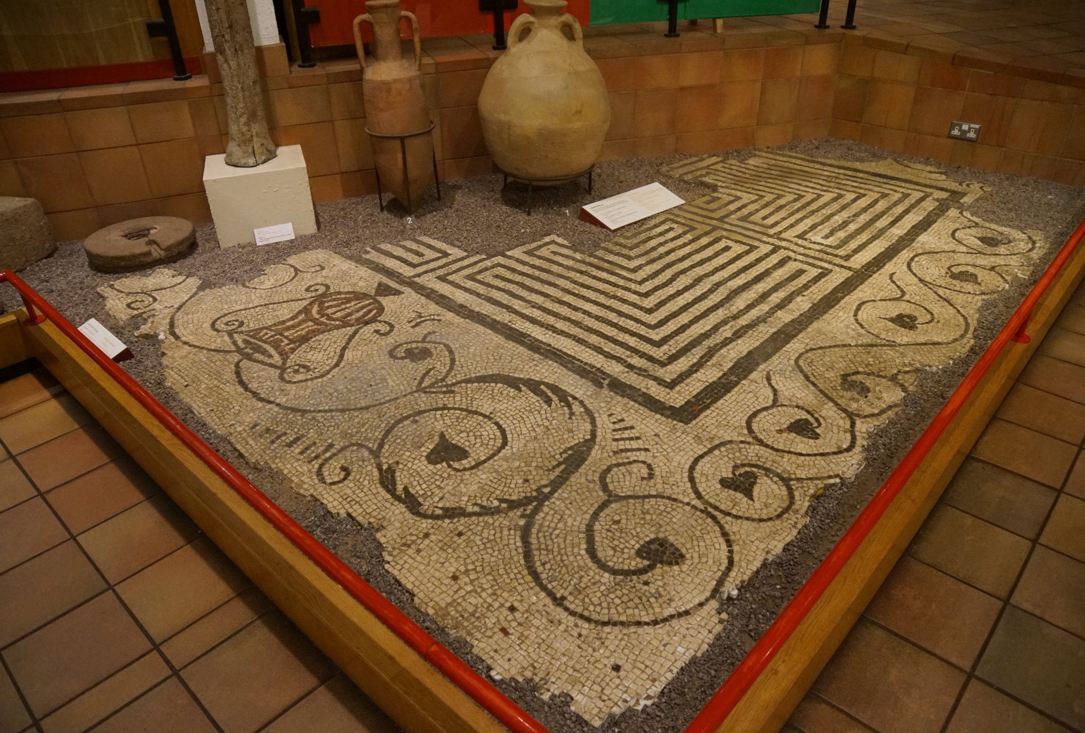 National Roman Legion Museum, Caerleon, Wales, United Kingdom. Mosaic floor.